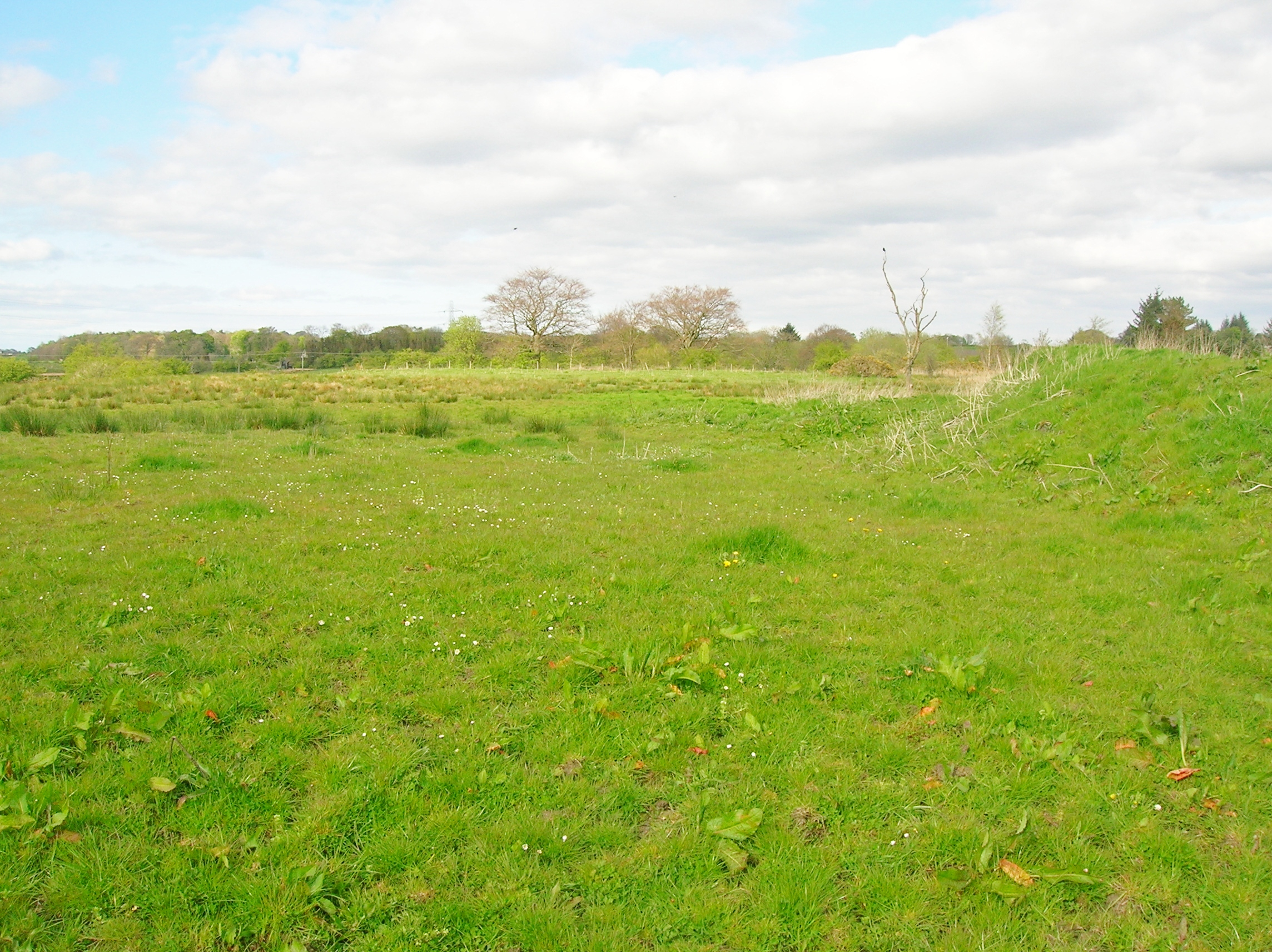 Roughwood, site of the old limestone quarry and limekilns, Beith, North Ayrshire, Scotland